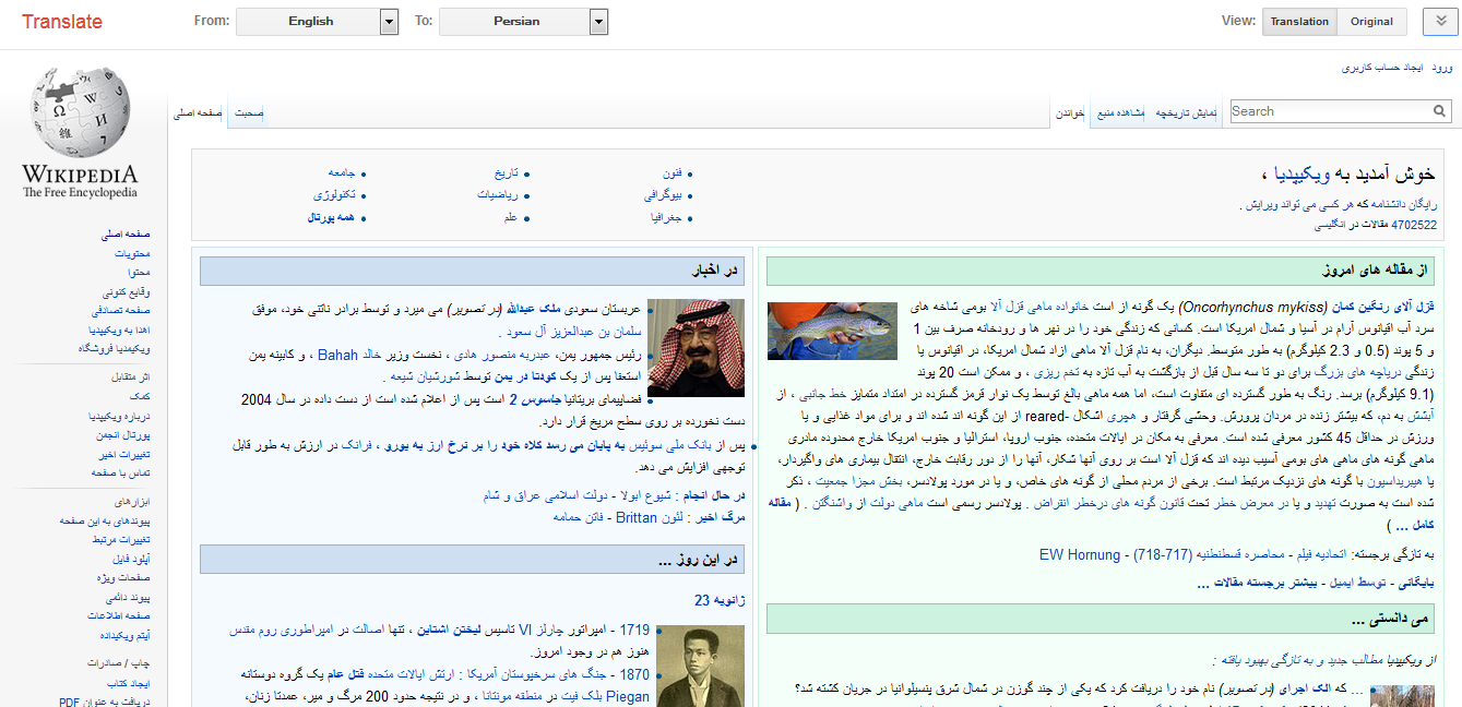 english wikipedia translated to persian by google translate